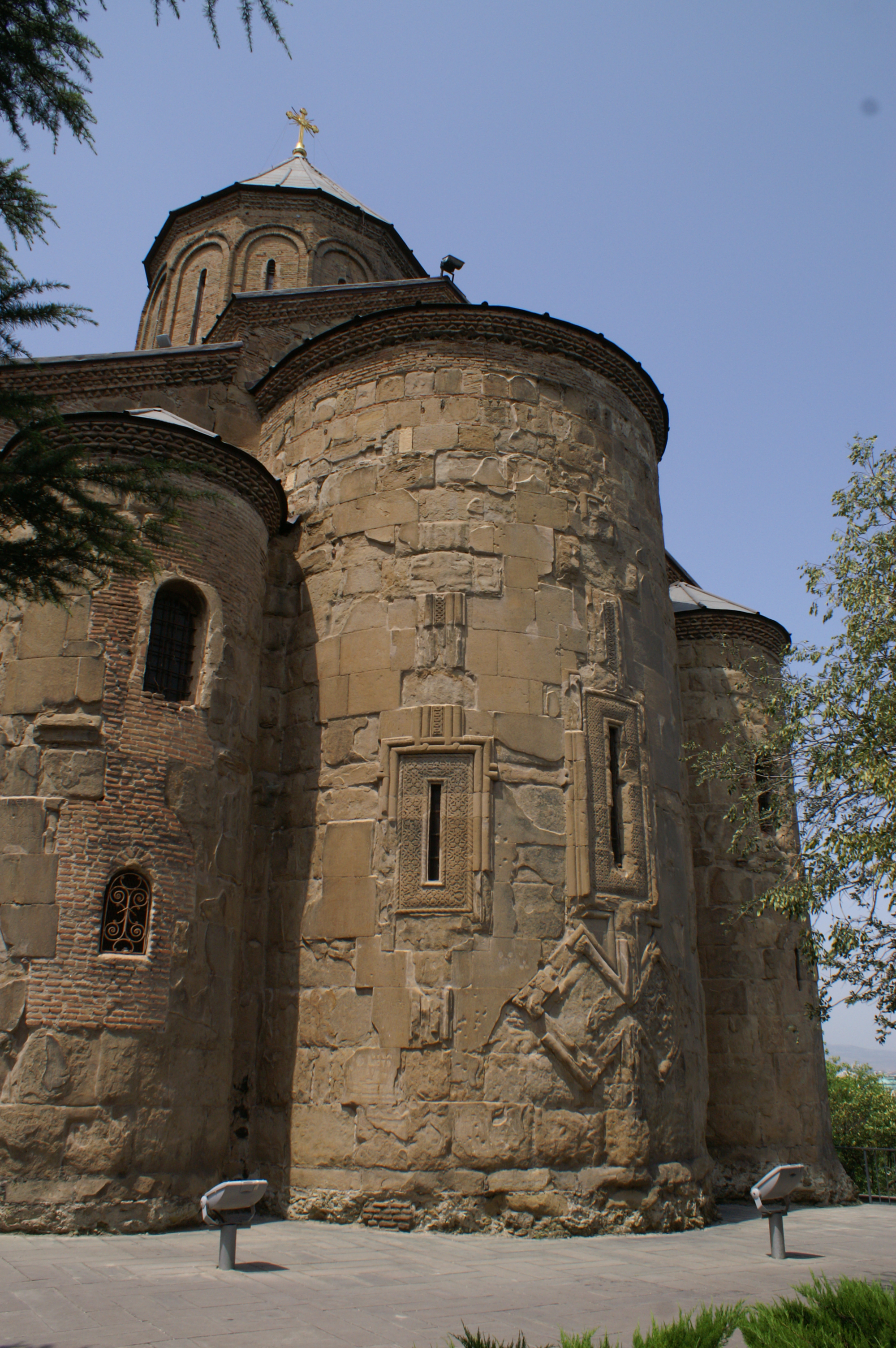 Eastern facade of Metekhi Church in Tbilisi, 31 July 2018